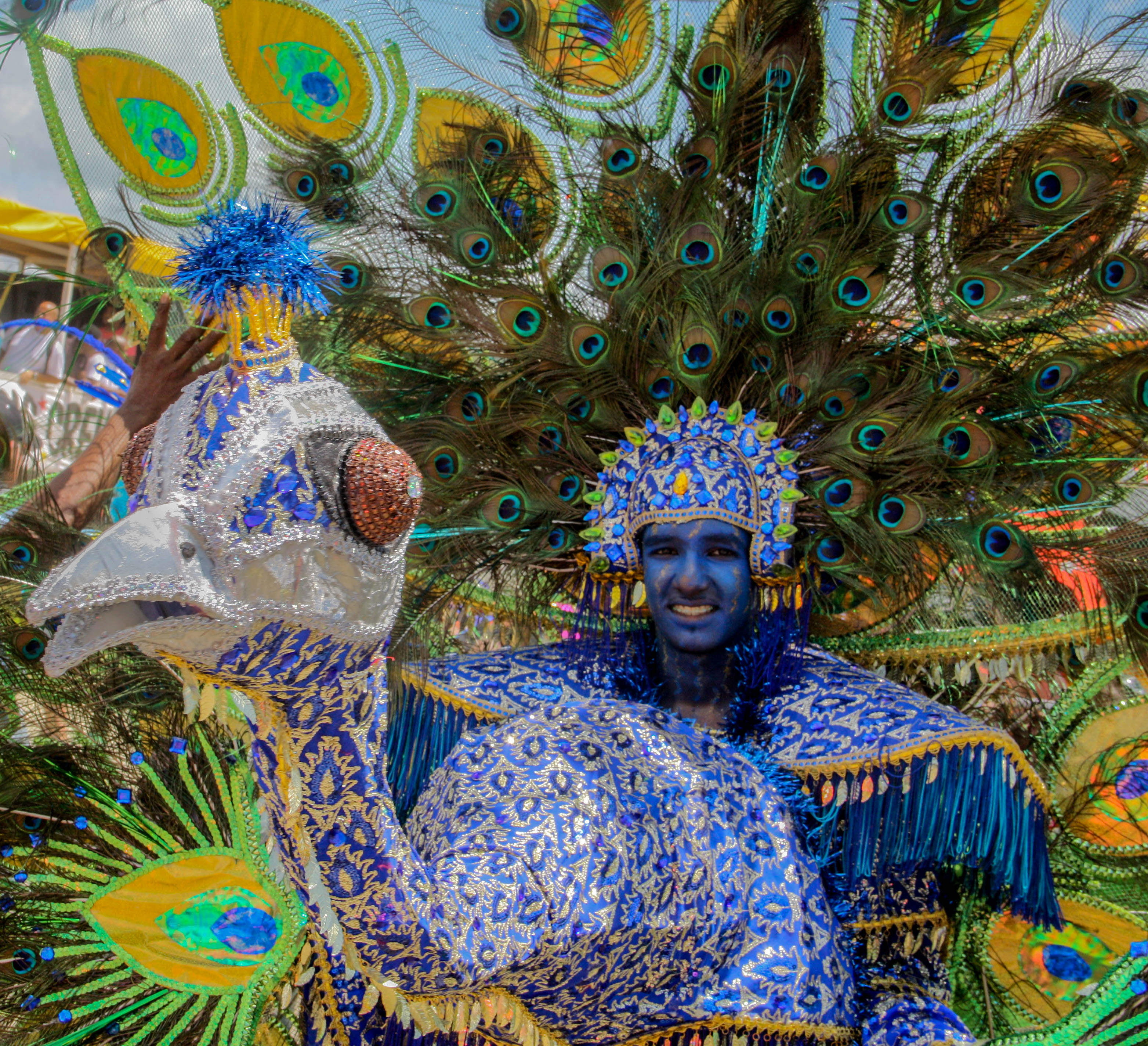 Junior Parade, Trinidad & Tobago Carnival